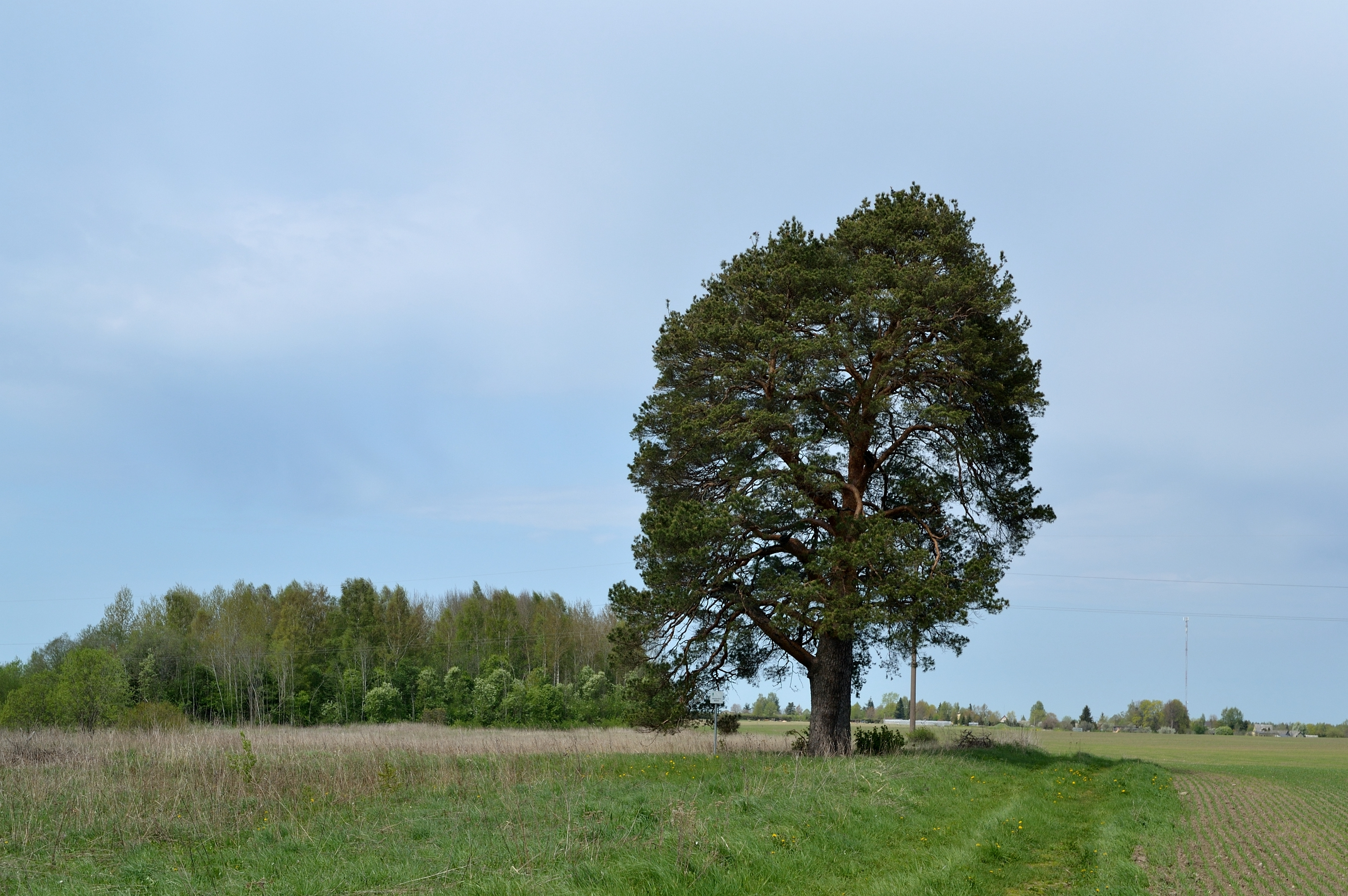 Prohveti (Prophet) pine (Pinus sylvestris)